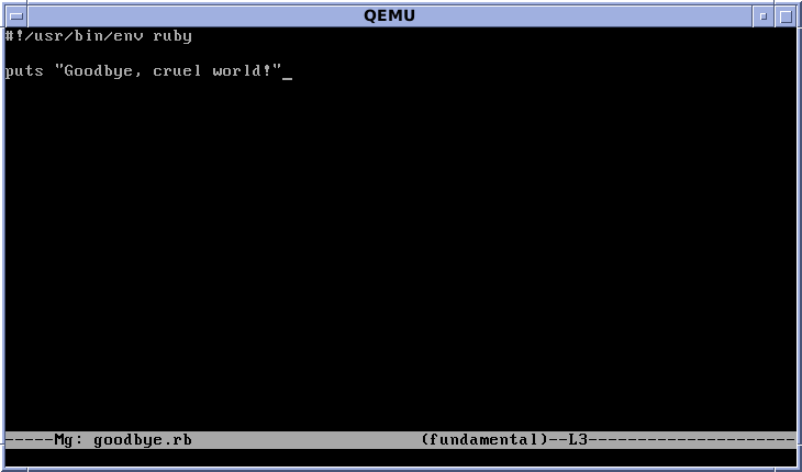 The mg editor, a tiny Emacs-like editor, in a session editing a small Ruby "Hello, World!" type program. OpenBSD 5.3, running in a QEMU VM.